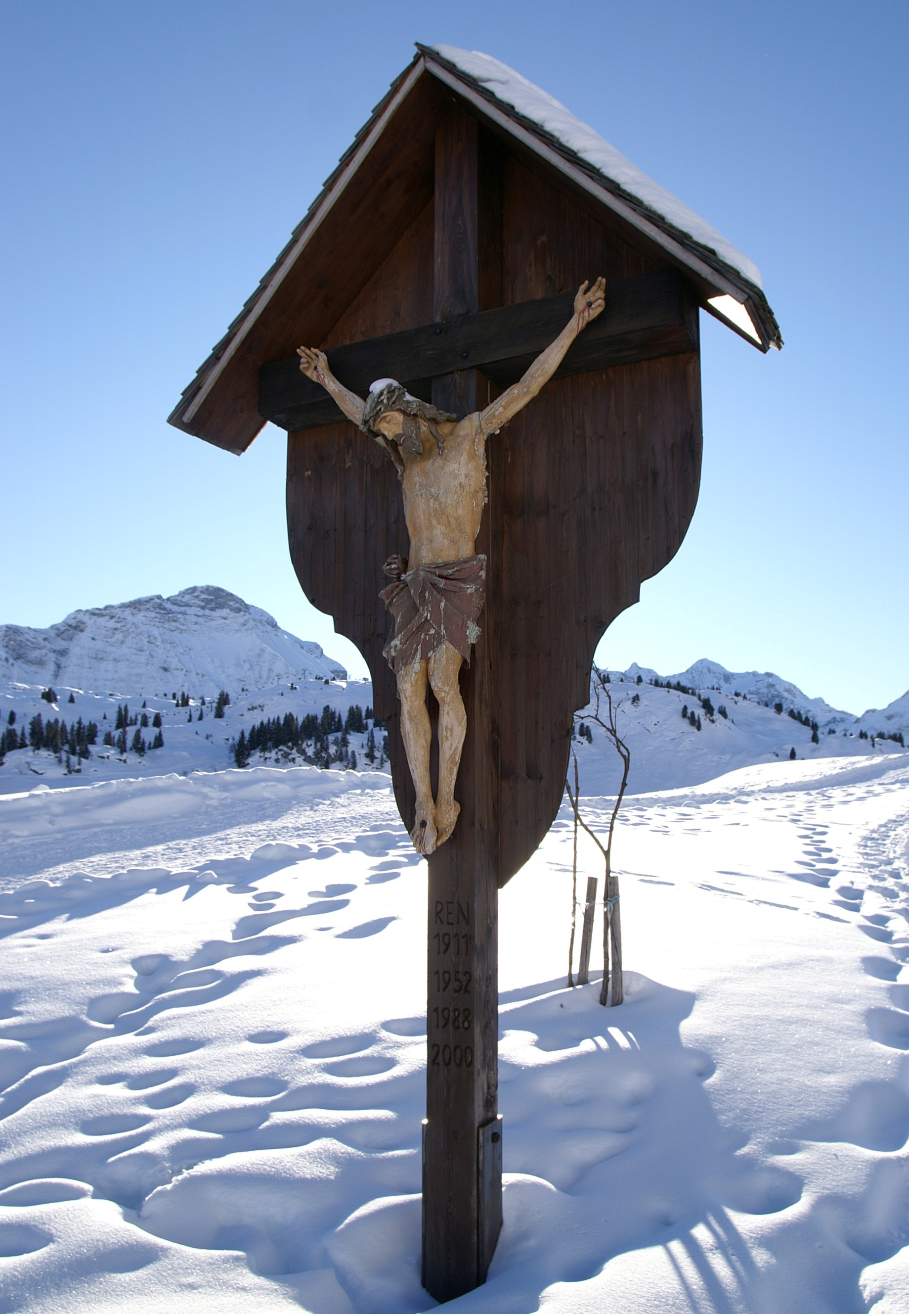 A crucifix in Hochtannberg Pass.